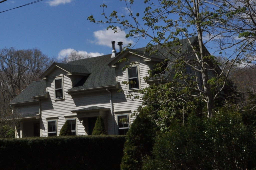 Horton House, at the Ingalls-Wheeler-Horton Homestead Site, Rehoboth, Massachusetts